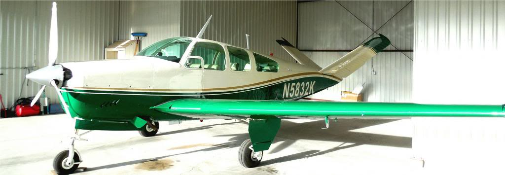 N5832K, a 1965 Beechcraft Model S-35 Bonanza, the lightest weight-per-HP Bonanza with the fastest top speed.